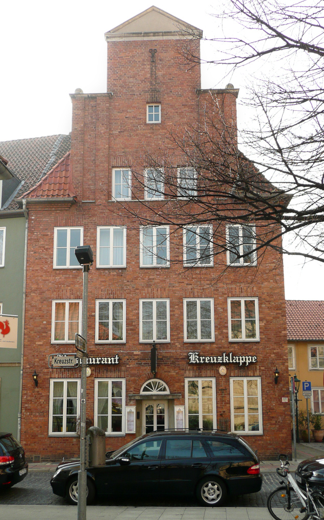 Hannover, Kreuzkirchhof 5